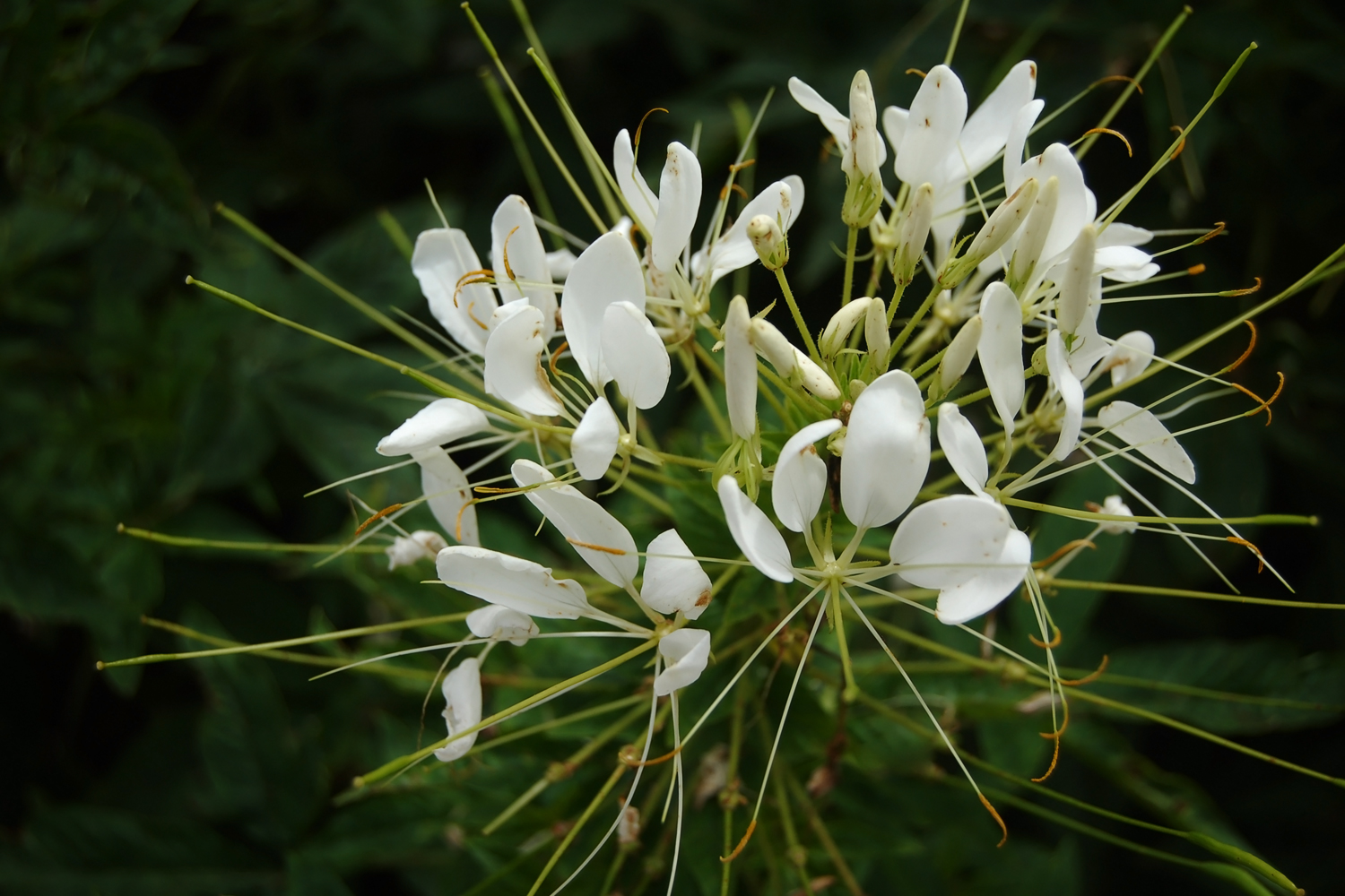 White spider flower (Cleome hassleriana, Cleome spinosa) in Furano, Hokkaido, Japan.